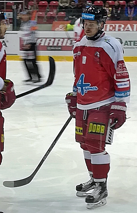 HC Olomouc - HC Dynamo Pardubice